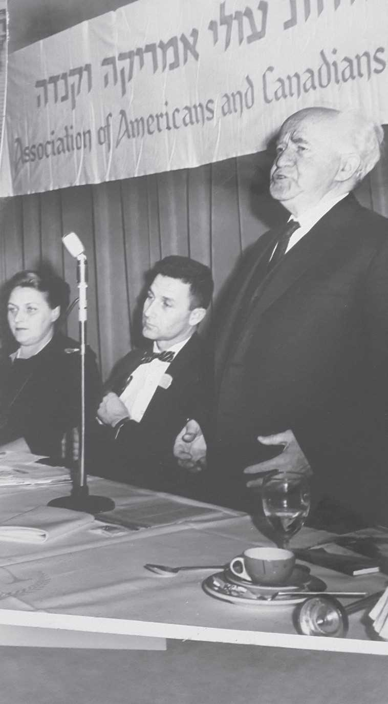 David Ben-Gurion addresses the AACI dinner at the Sheraton Hotel in 1961 next to Murray Greenfield.